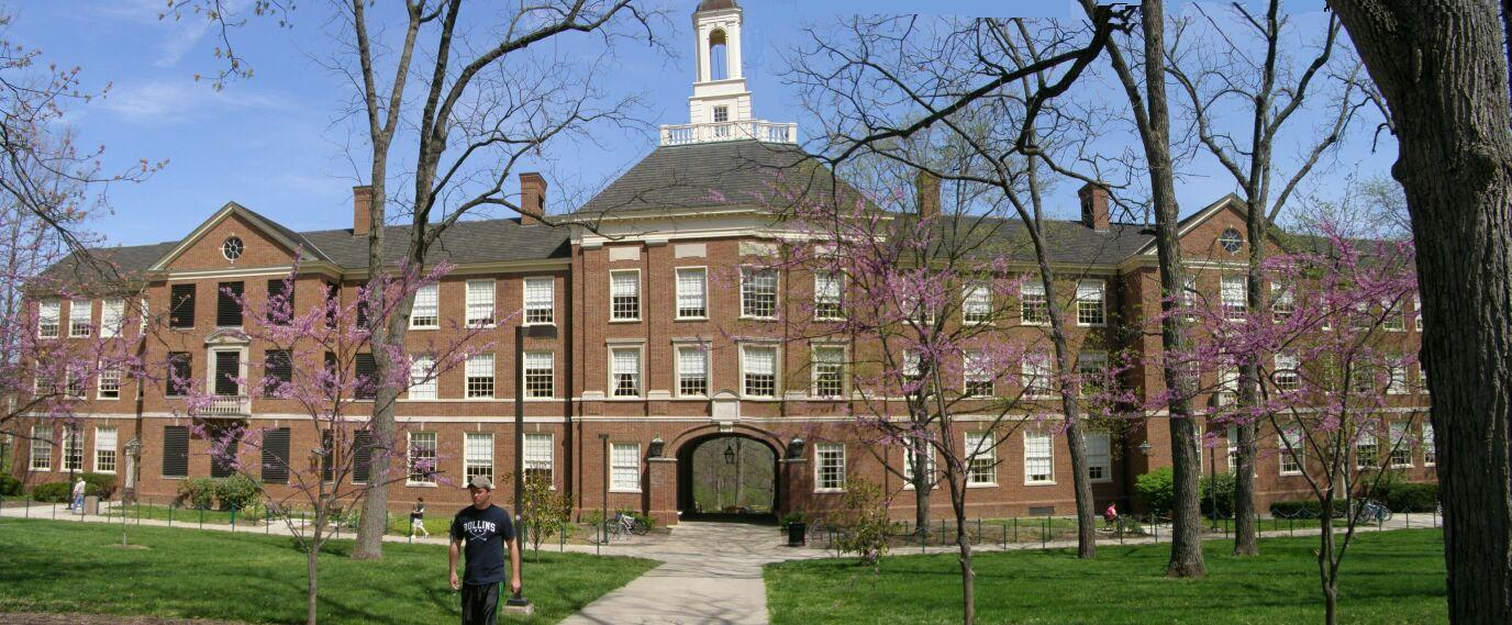 Upham Hall at Miami University (Zoology, English, Botany)